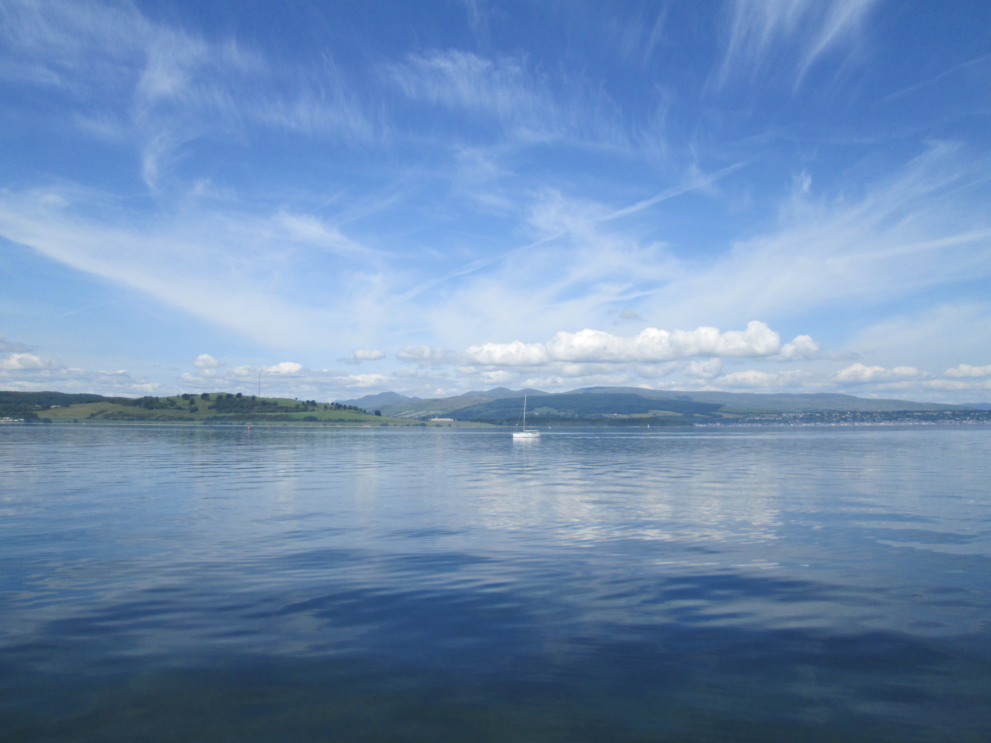 The River Clyde from Greenock Esplanade